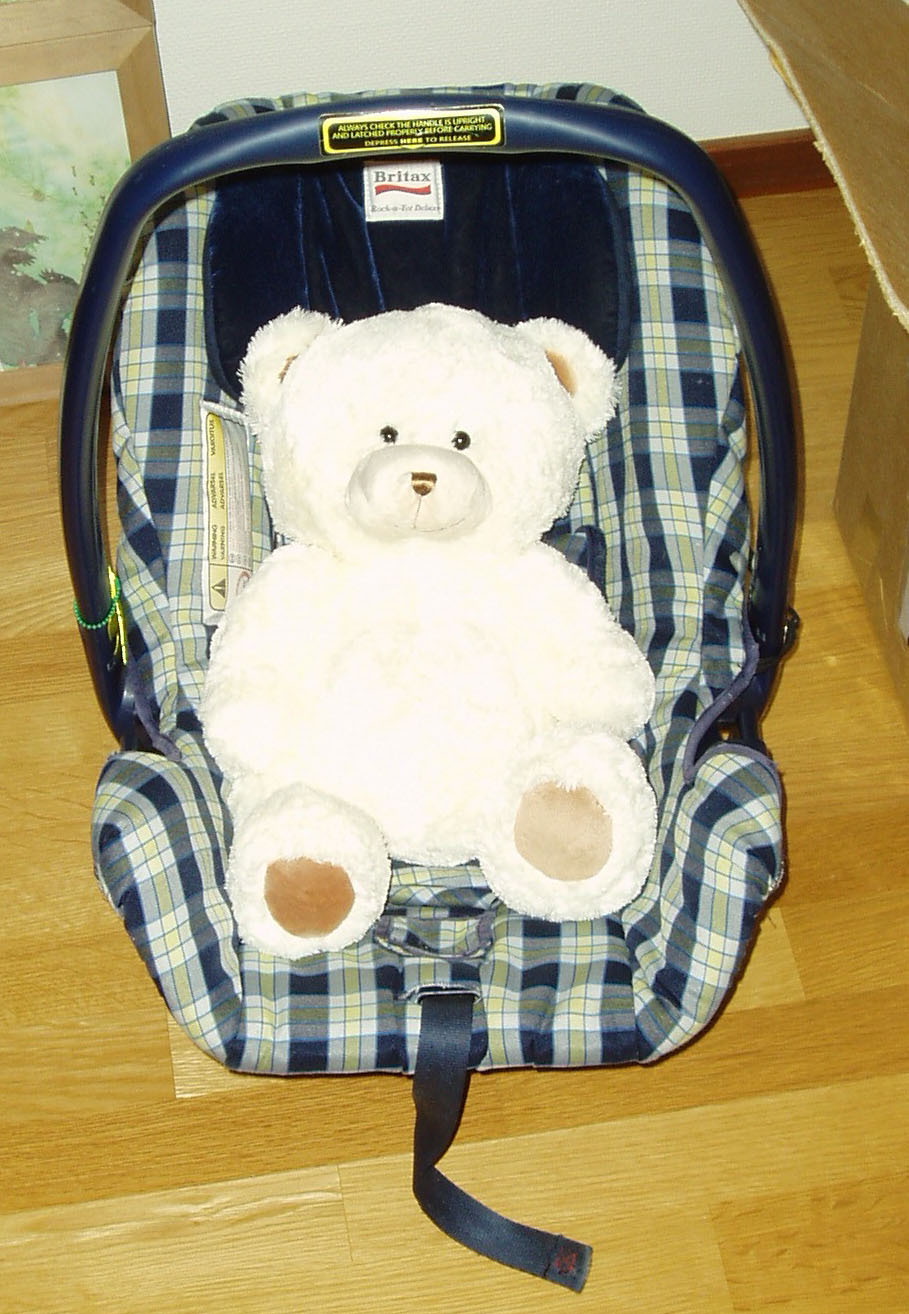 Baby car seat